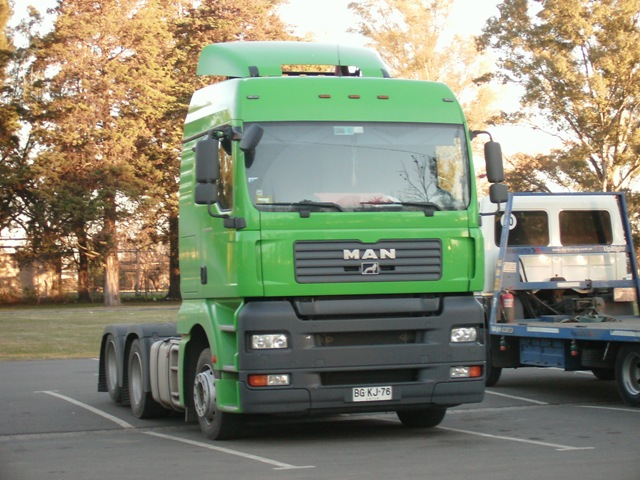 Camión MAN TGA en el estacionamiento de un hipermercado Carrefour de la ciudad de Pilar, Buenos Aires, en Argentina.